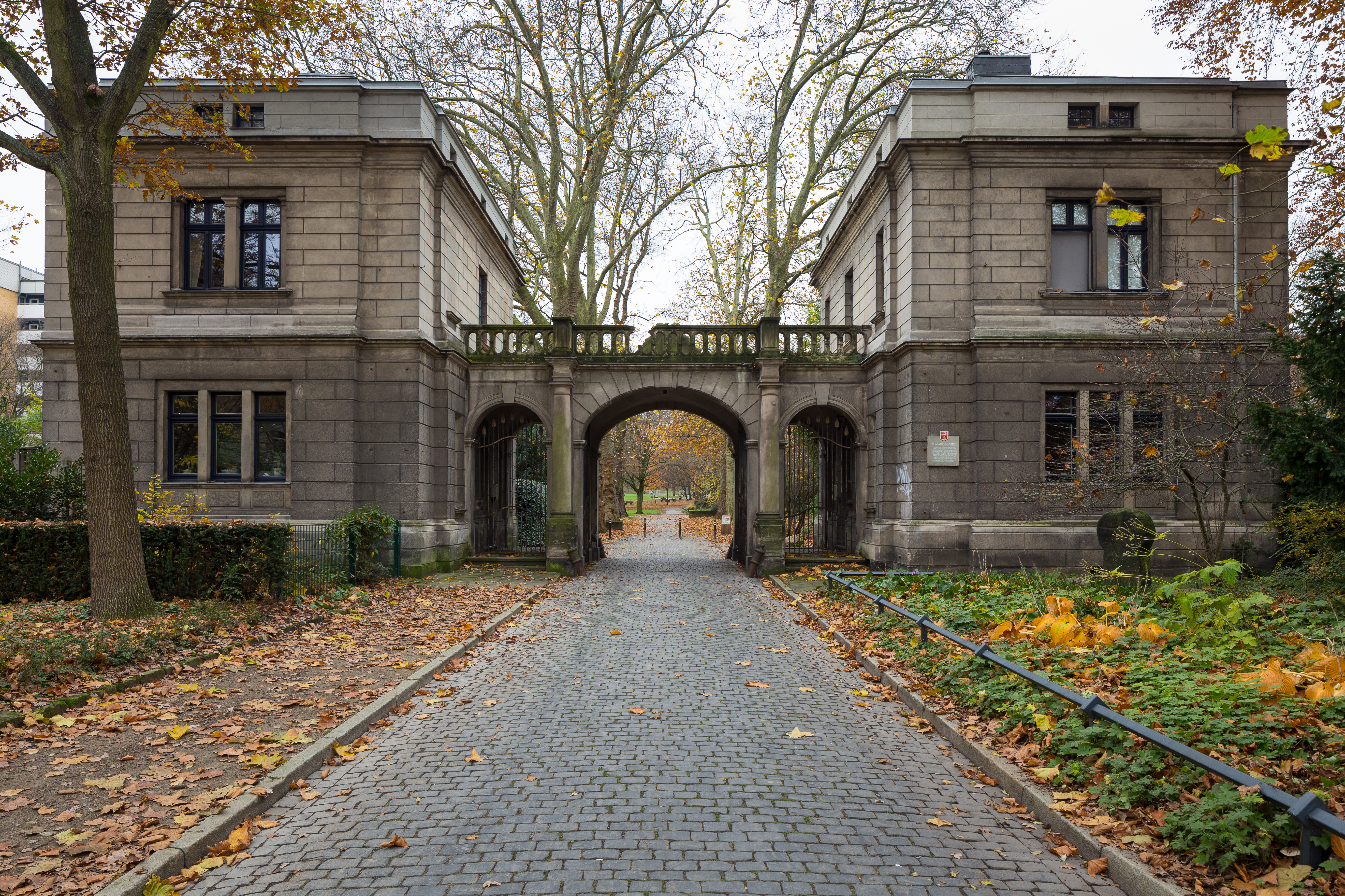 Gatehouse at the entrance of Von-Alten garden located at Posthornstrasse in Linden district of Hanover, Germany.